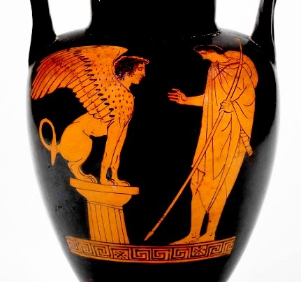 Two-handled jar (amphora) depicting Oedipus and the Sphinx of Thebes. Greek. Classical Period. 450–440 B.C.